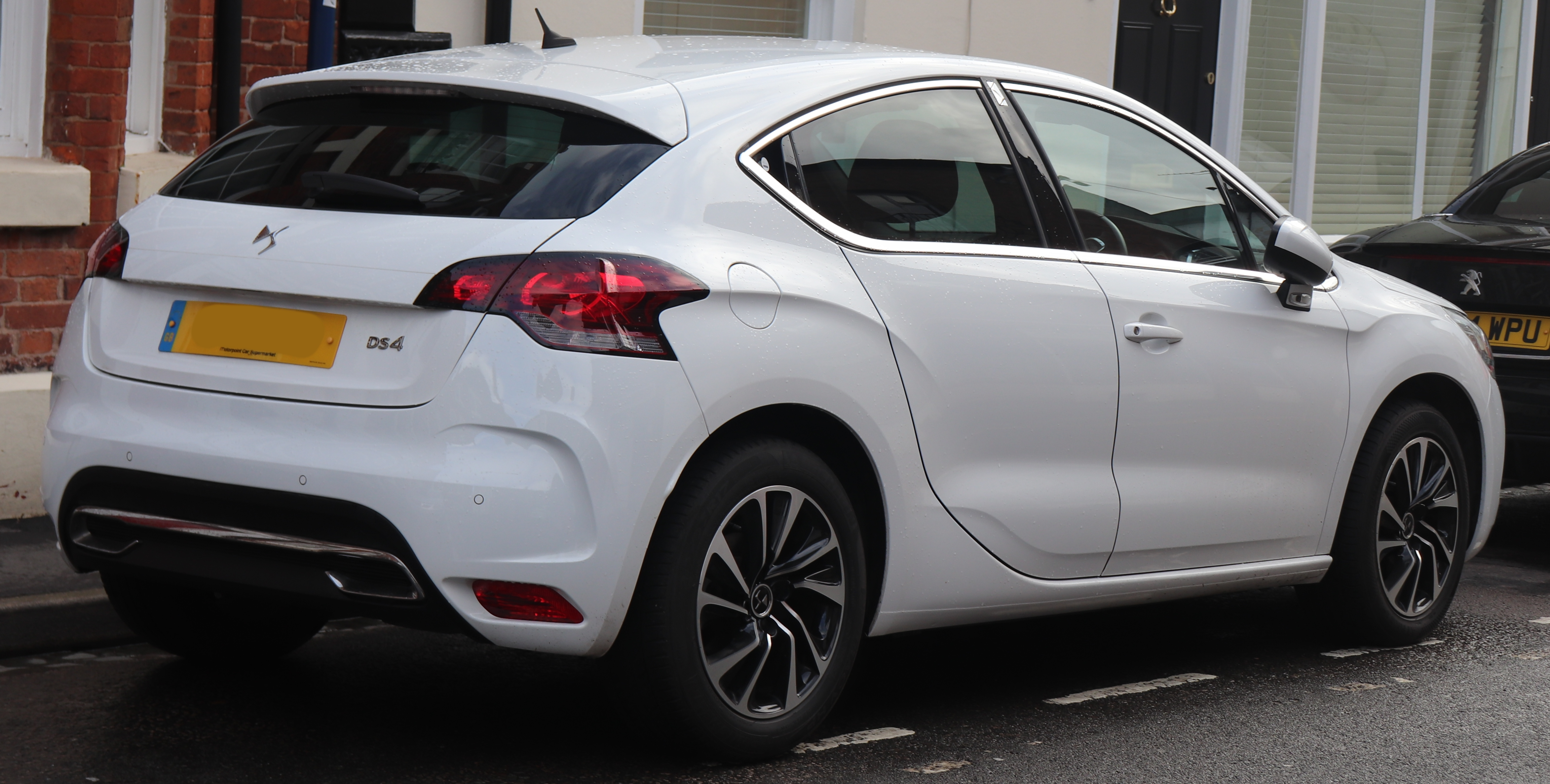 2016 DS DS4 Elegance BlueHDi 1.6 Rear Taken in Warwick